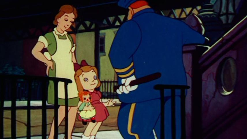 Frame from The Enchanted Square (Famous Studios/Paramount, 1947). Artwork by Orestes Calpini.